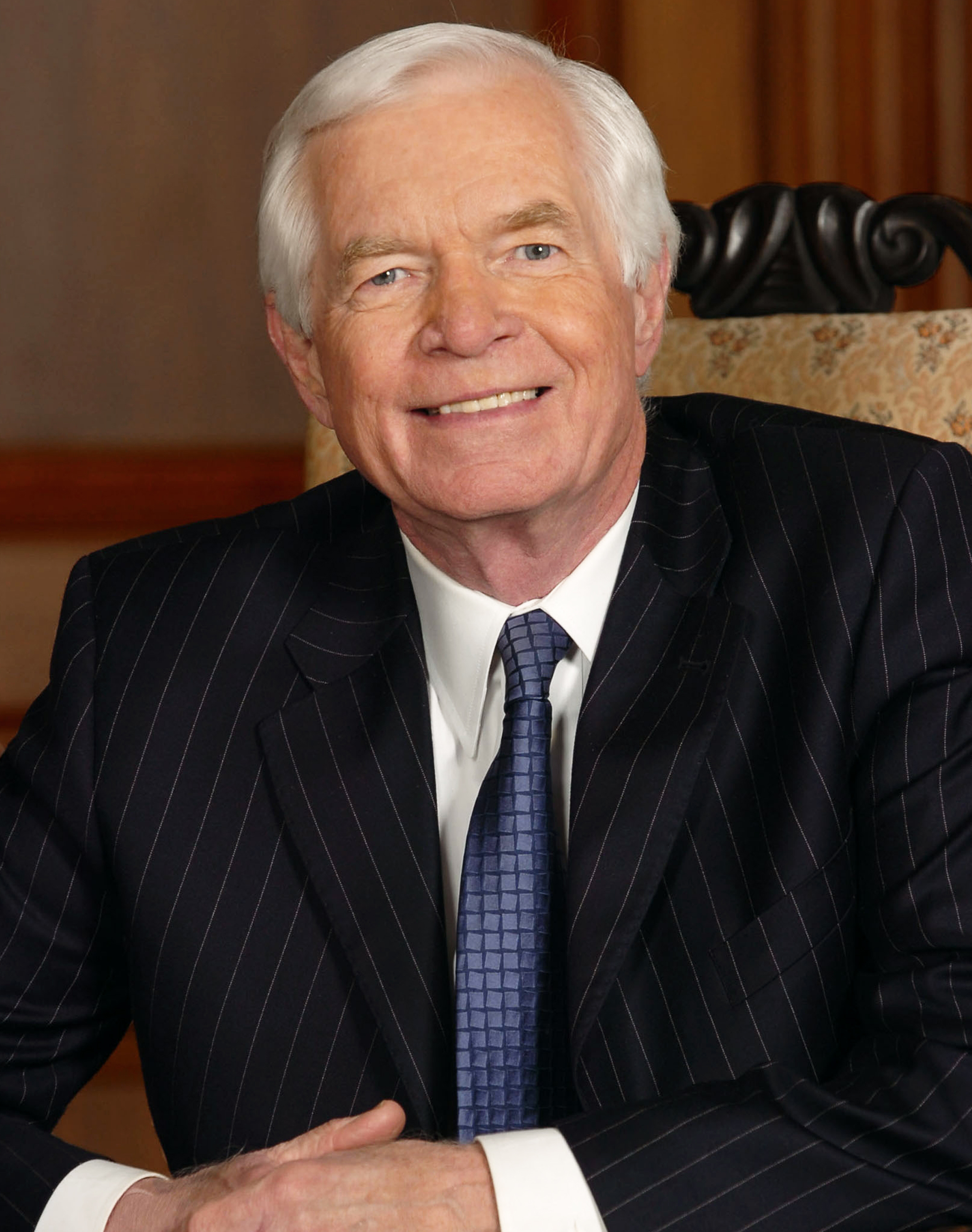 Thad Cochran, member of the United States Senate from Mississippi.